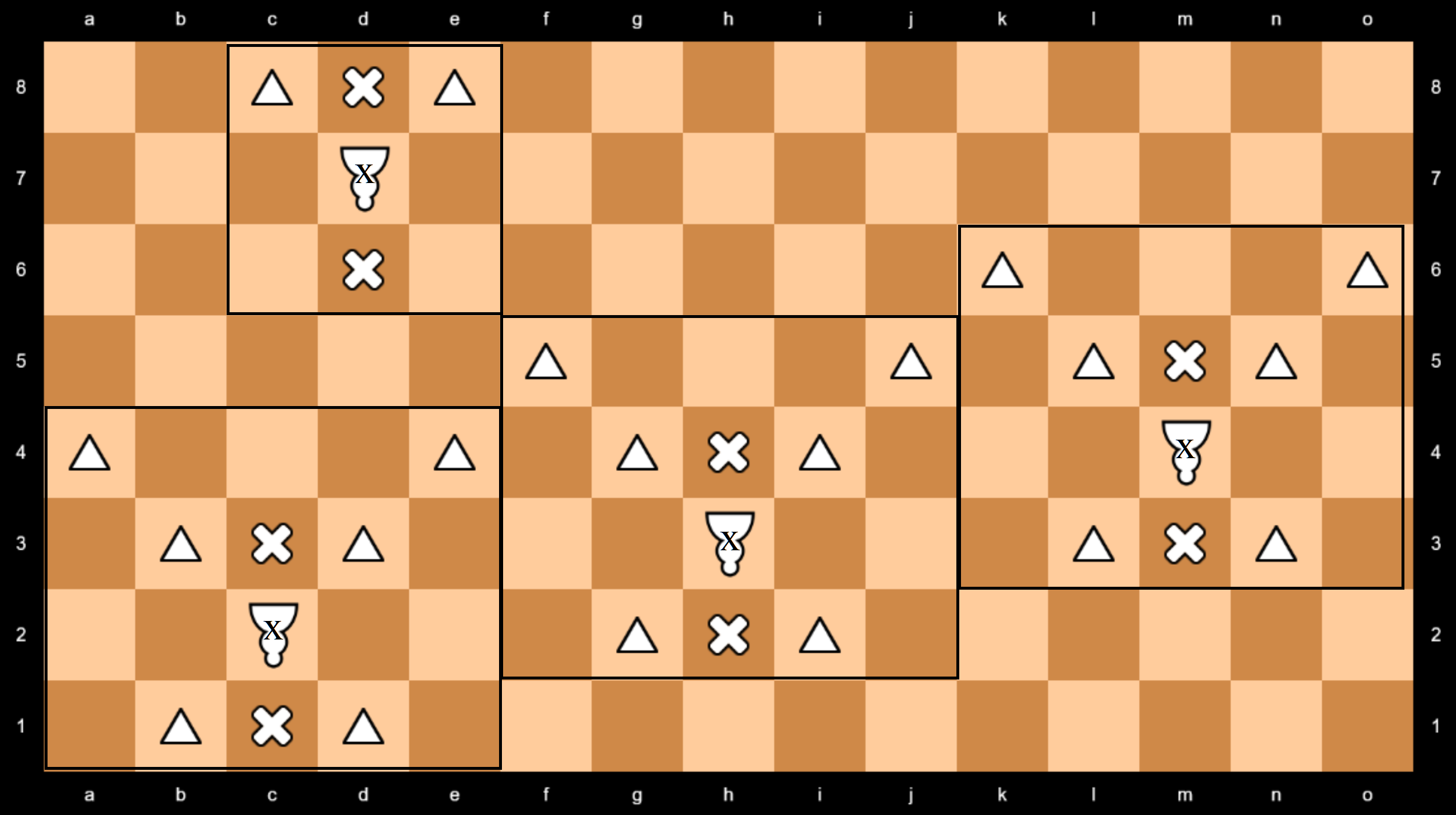 Barasi Pawns are inspired from Berolina Pawns. But they have much more mobility and are much more stronger.